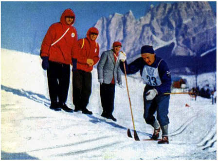 Two judges follow the progress of Sverre Stenersen on his way to victory in nordic combined at the 1956 Winter Olympics in Cortina d'Ampezzo, Italy. Author unknown. Photo found on: Per below, Italian copyright expired in the 1970s, therefore not copyrighted in the US.